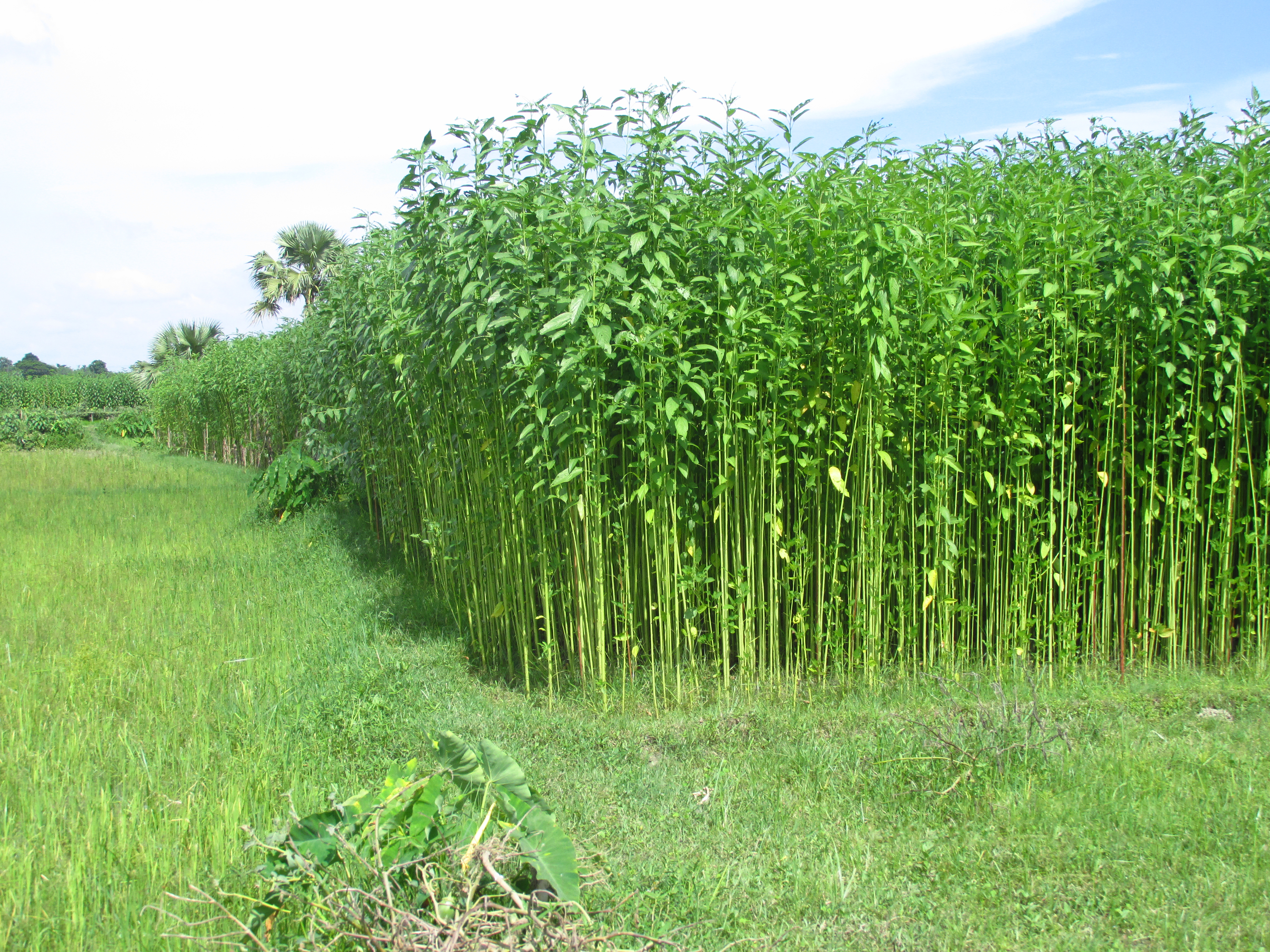 Jute plant in field at Bangladeshi village